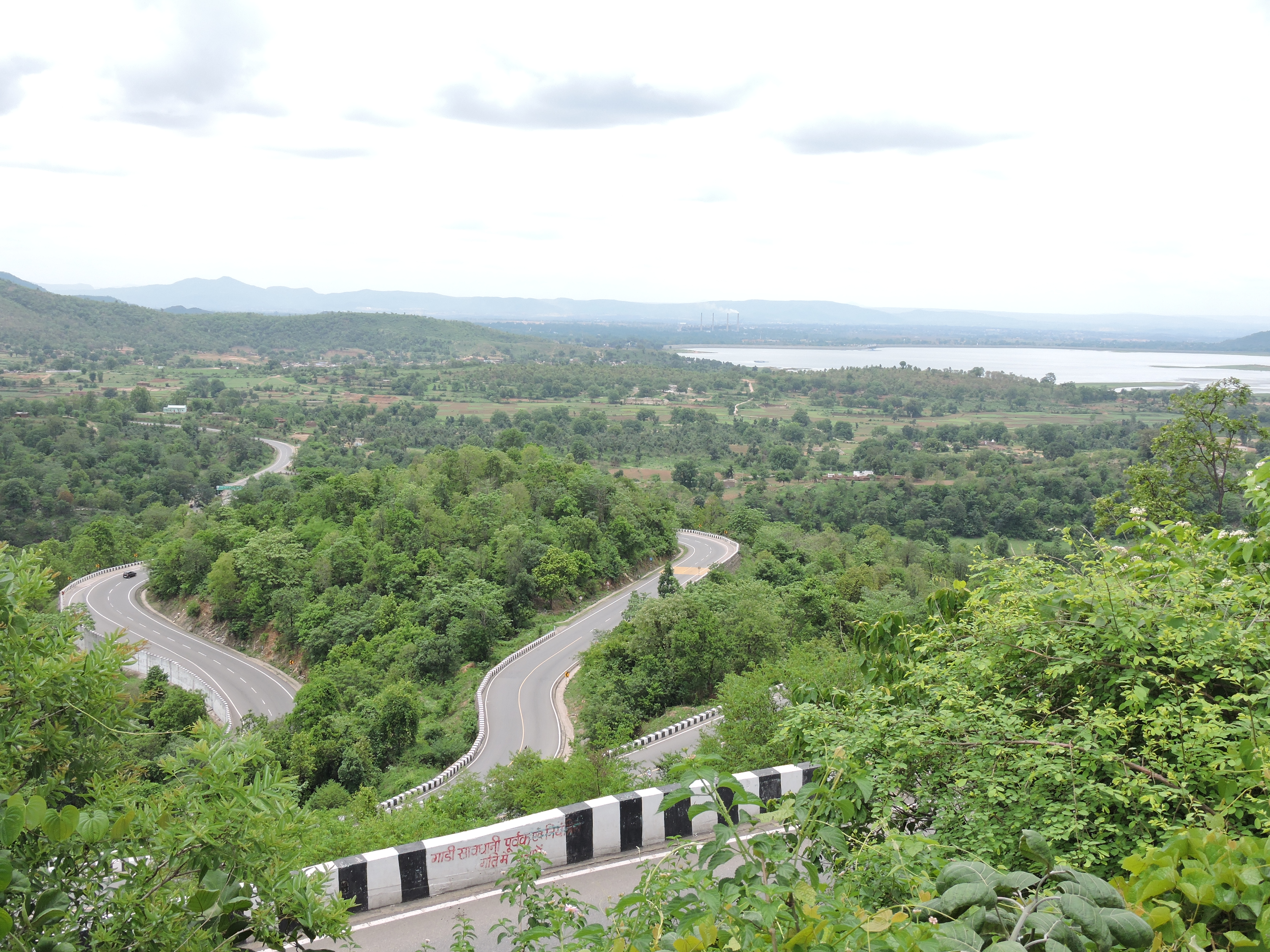 Beautiful view of Patratu valley